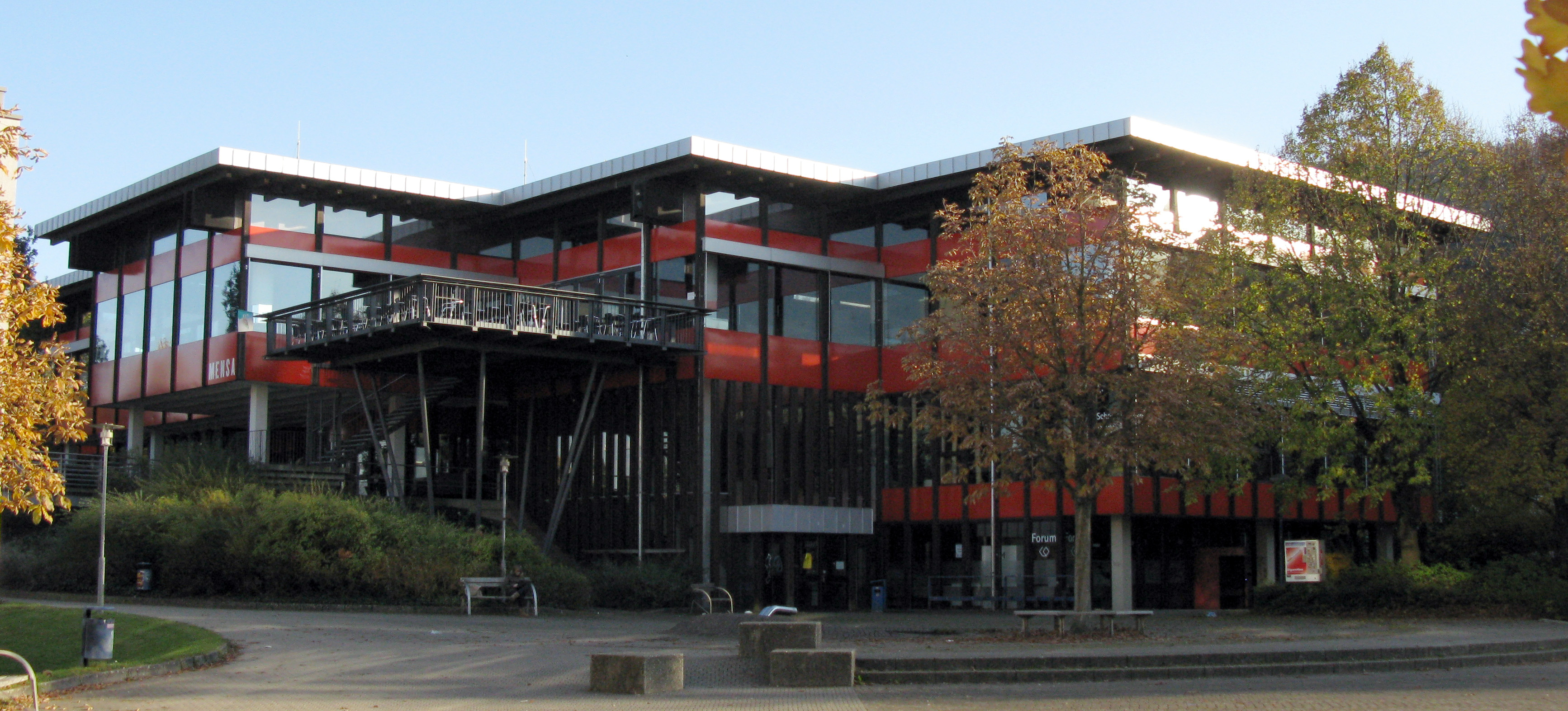 Canteen of the pedagogical college Freiburg